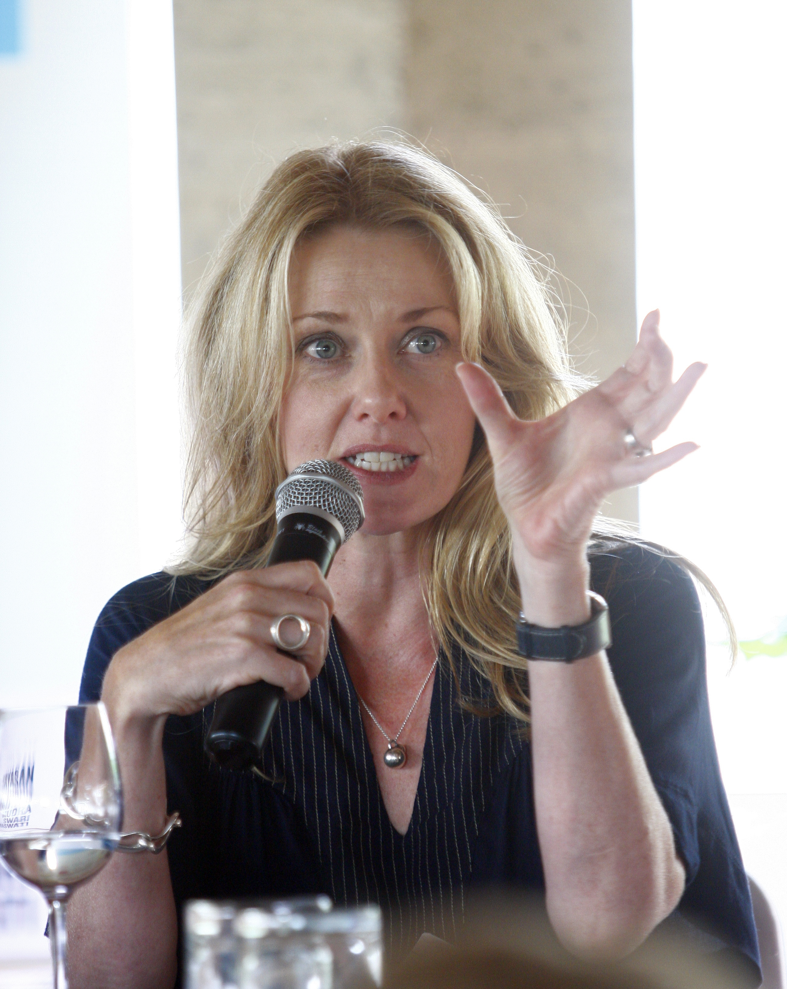 Ubud Writers & Readers Festival 2012. Image credit Stanny Angga.